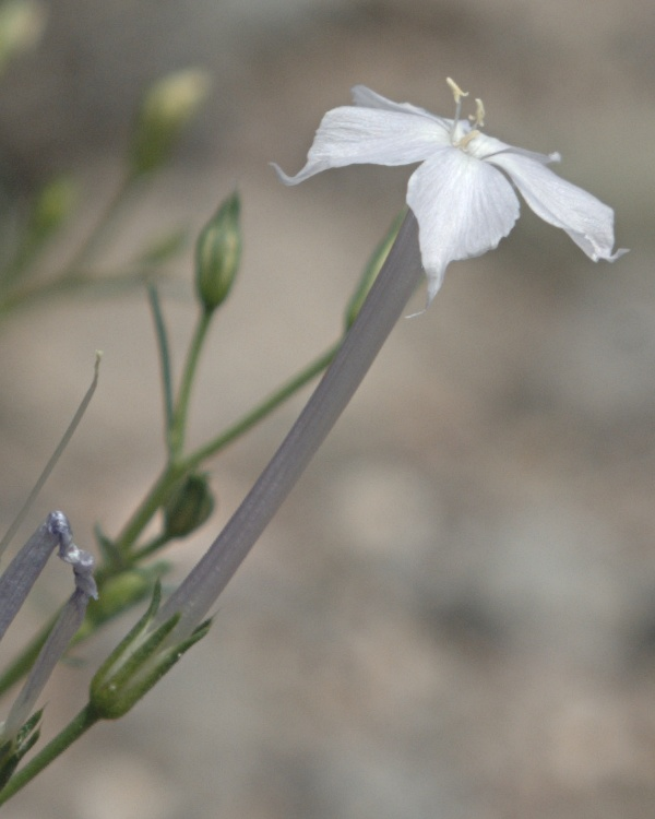 Flower of Ipomopsis longiflora, long-flowered trumpet gilia, flaxflowered ipomopsis, blue trumpets, etc. Near the Otowi Bridge, San Ildefonso Pueblo, New Mexico. Same plant as File:Ipomopsis longiflora habitus.jpg